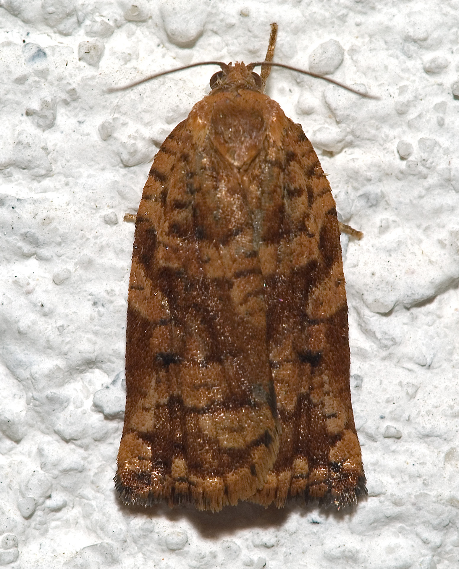 Please report references to kulacgmx.at.